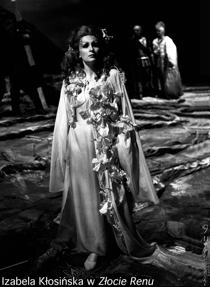 Rheingold (Freya),TW-ON